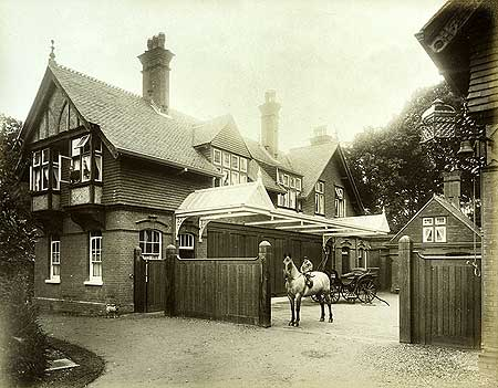 The stables at South Park in Wadhurst with a small boy seated on a horse in the yard. South Park, later known as Wadhurst College, was designed by Adolphus Croft, an in-house architect for the firm Gillow and Company, in 1885 for John Bruce.